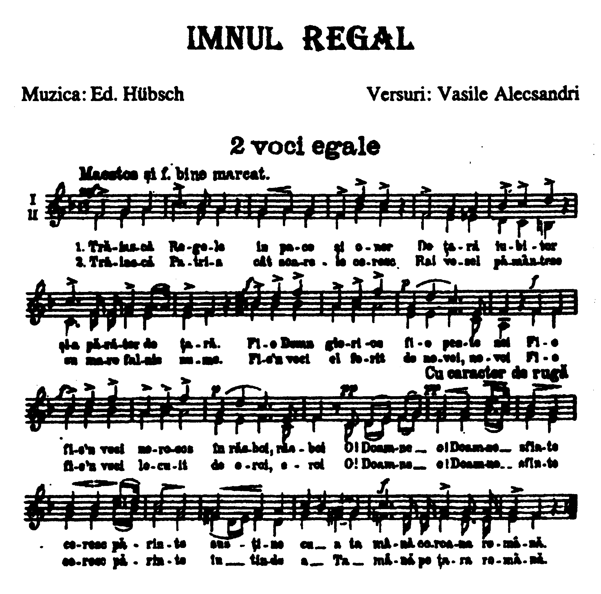 Music sheet of the national anthem of Romania, 1884-1947 Imnul Regal